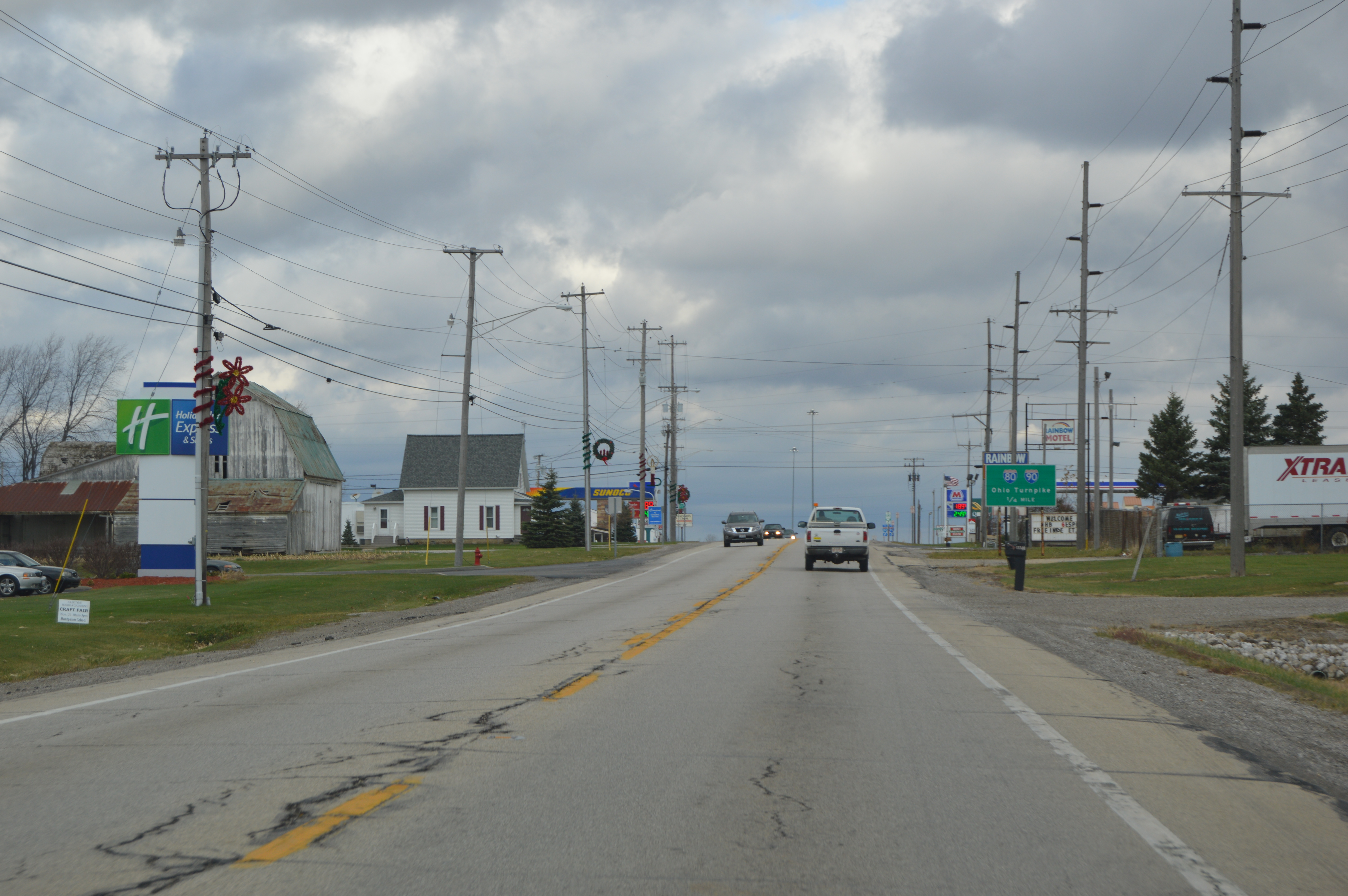 Looking northward in U.S. Route 20 Alternate/State Route 15 in Holiday City, Ohio, United States. Most of the village consists of farmland, and this area is typical of the remainder, which is primarily a servicee area for an Ohio Turnpike interchange.